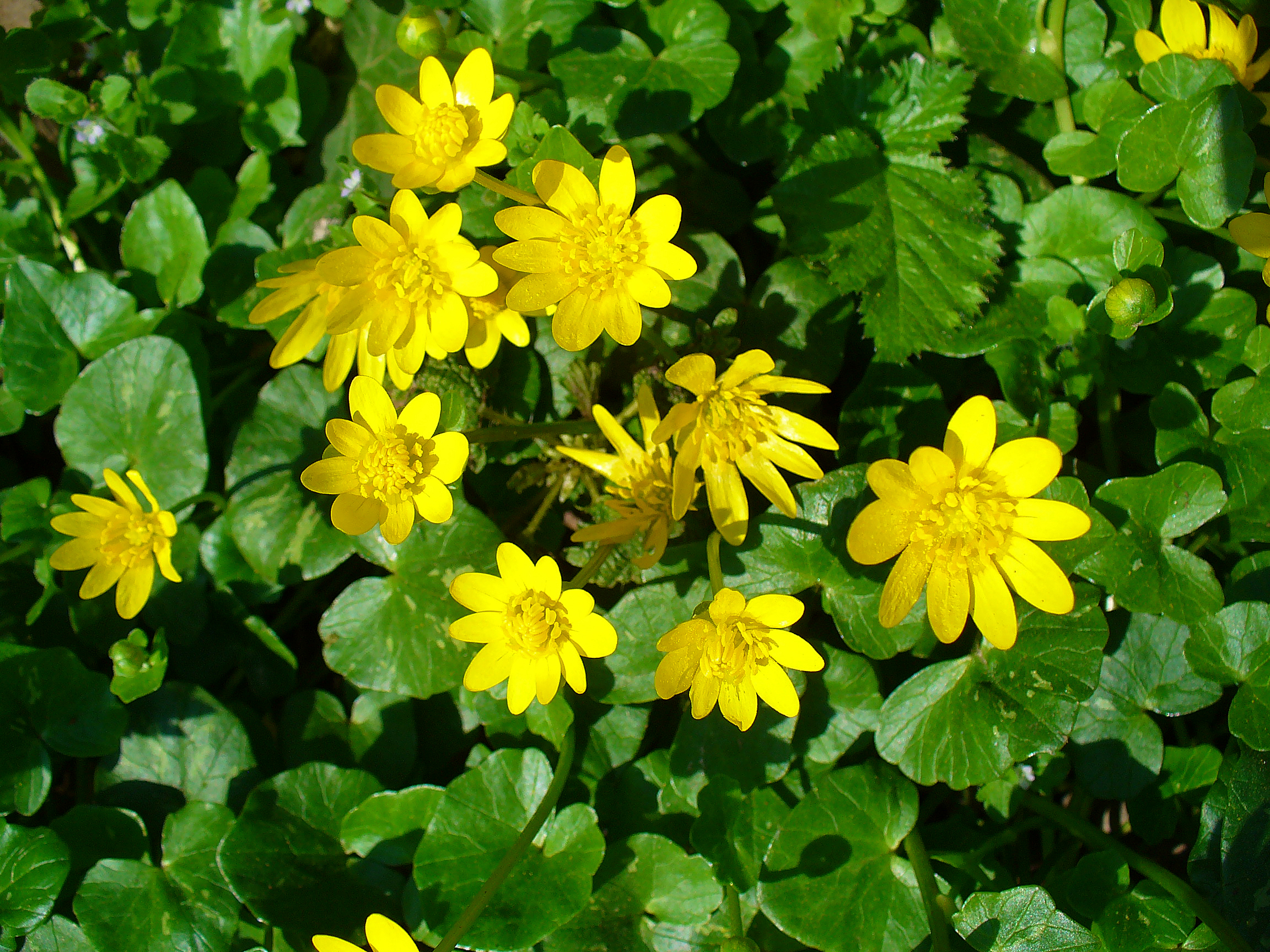 Ficaria verna, Ranunculaceae, Lesser Celandine, flowers. Karlsruhe, Germany.